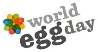 World egg day. Pics uploaded by Mr. Santosh Sahu, India